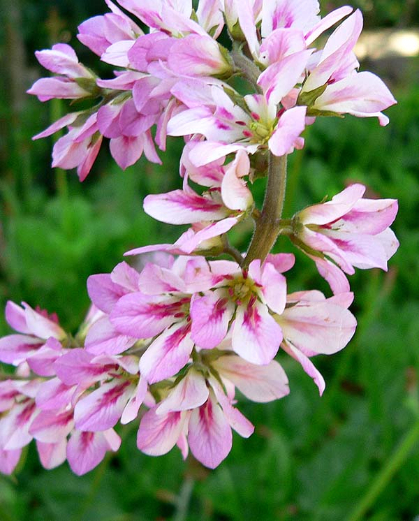 Photo of Francoa ramosa at the San Francisco Botanical Garden